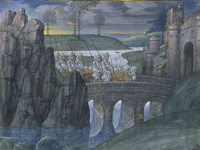 MS. LUDWIG XIII 7, fol. 318 (Getty museum) - Froissart’s Chroniques